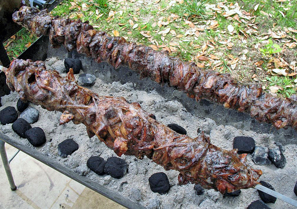 Kokoretsi cooking on a spit. The author took this photo on April 23, 2006 at his family's Greek Easter celebration in Dallas, TX.